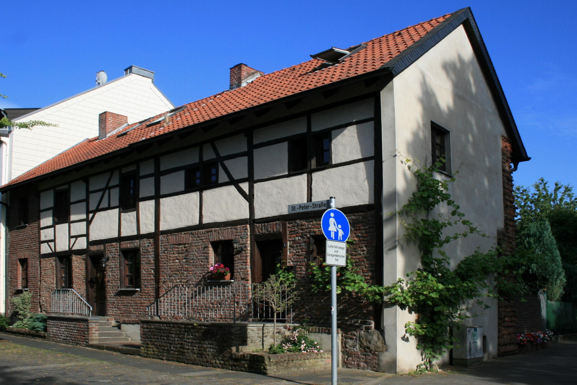 Cultural heritage monument No. St 003 in Mönchengladbach